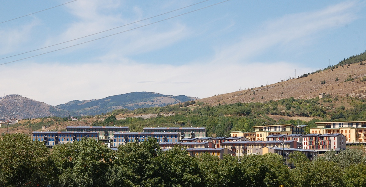 L'Aquila 2010